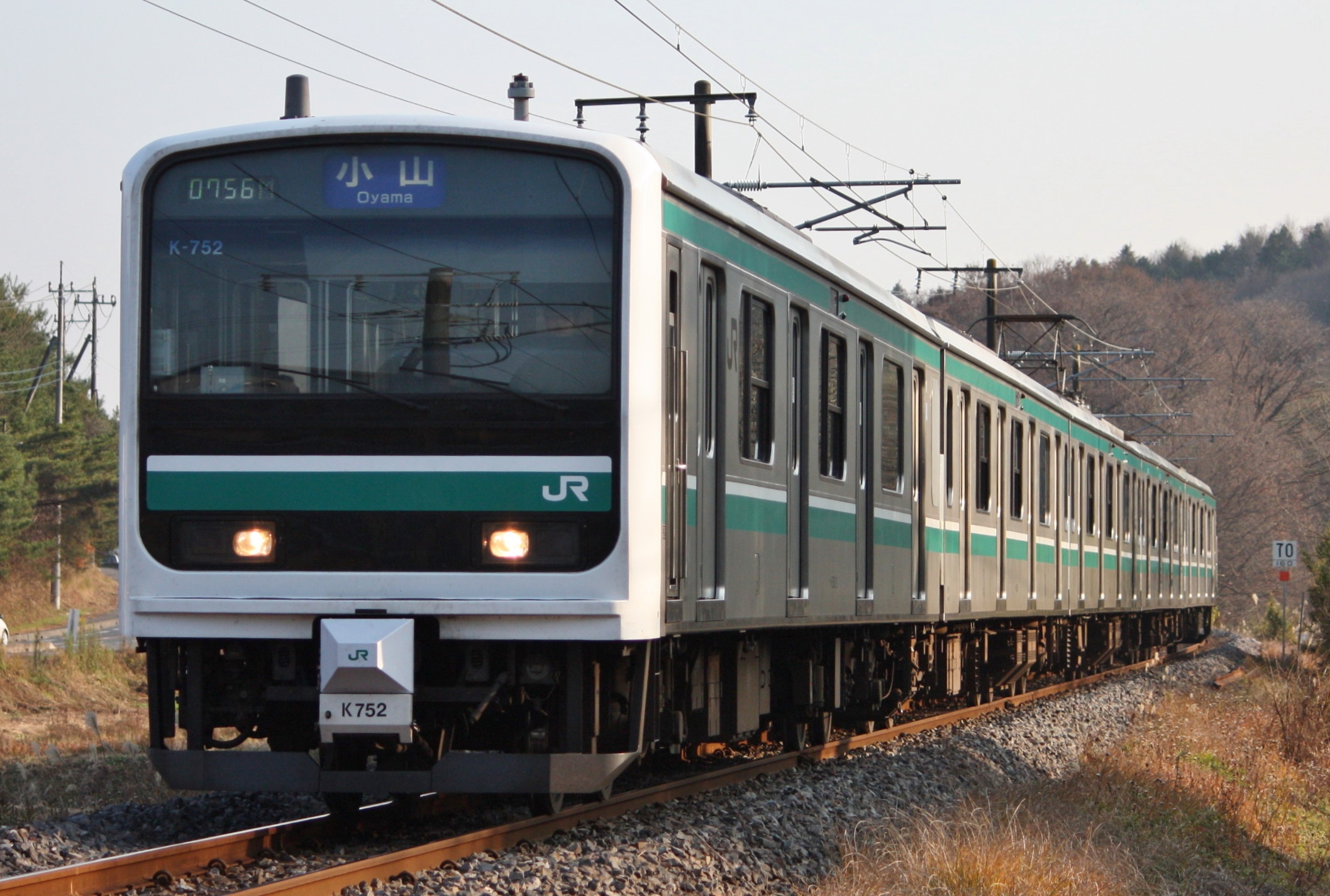 JR East E501 series 5-car EMU set K752 on a Mito Line service